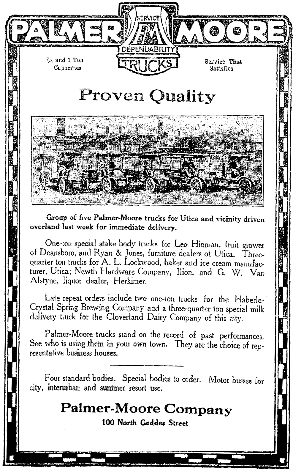 Palmer-Moore Company - Group of five Palmer-Moore trucks for Utica, New York